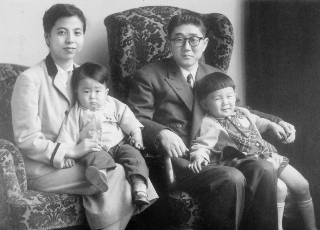 Shinzō Abe's family in 1956: l-to-r, mother Yōko, 2-year-old Shinzō, father Shintarō Abe, and older brother Hironobu